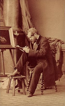 French illustrator Bertall (1820-1882) by Disdéri (1819-1889)